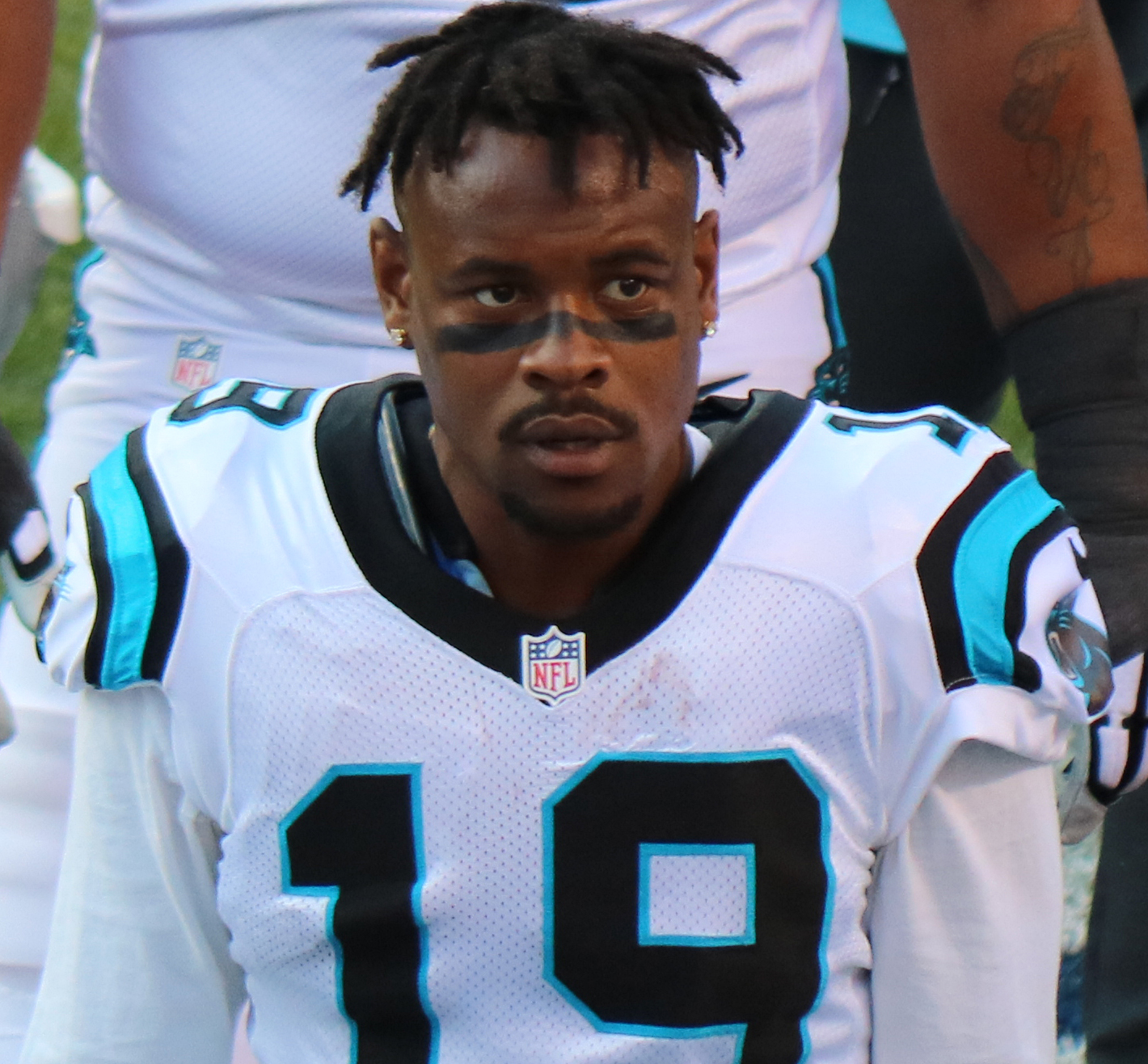 Ted Ginn, Jr., a player on the National Football League.